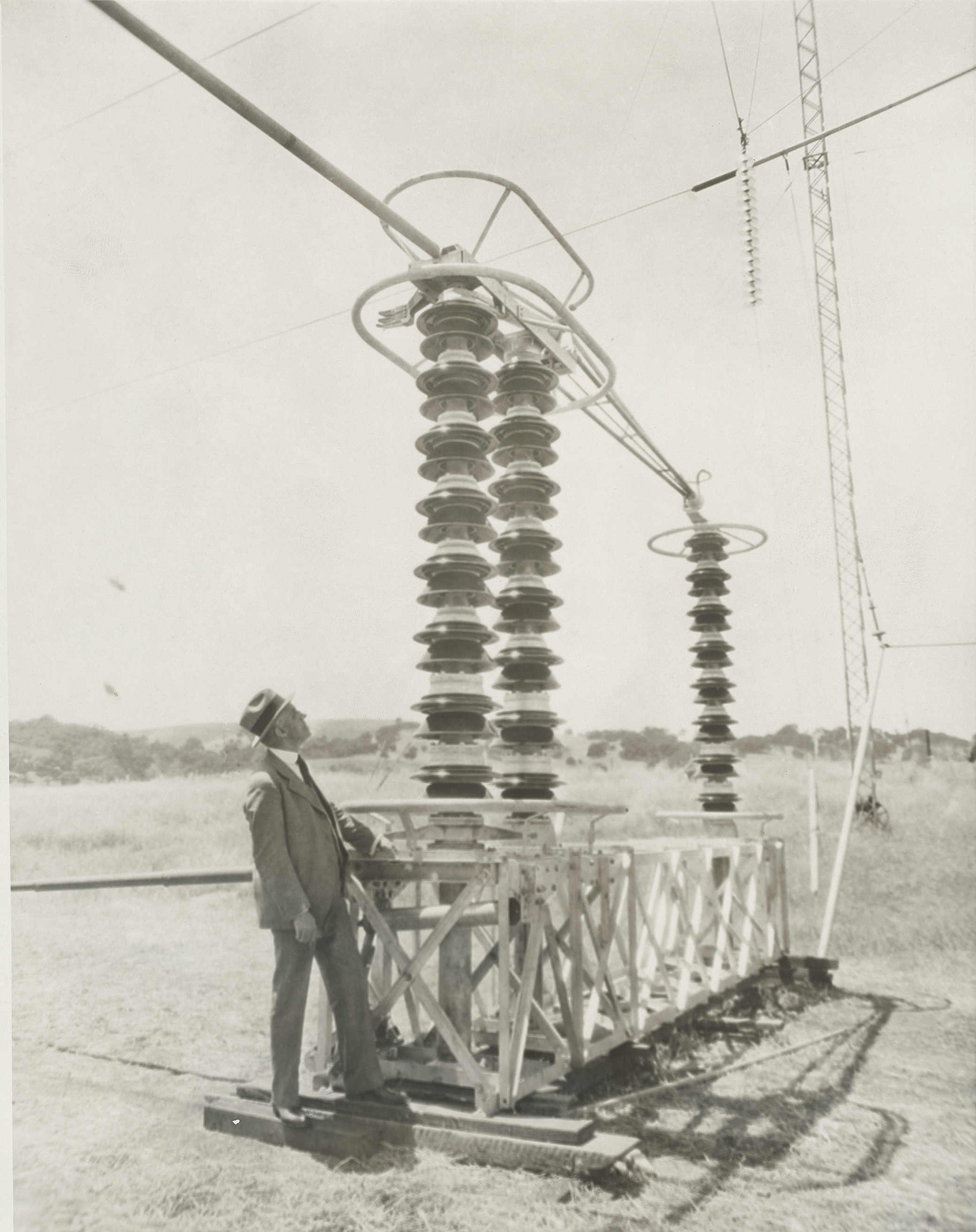 Augustus Jesse Bowie III (1872–1955) looks over a portion of a high-capacity electrical switch he designed for use at Hoover Dam (via Bowie Switch Company). At the time of their manufacture, these 287 kV switches were the world's largest.